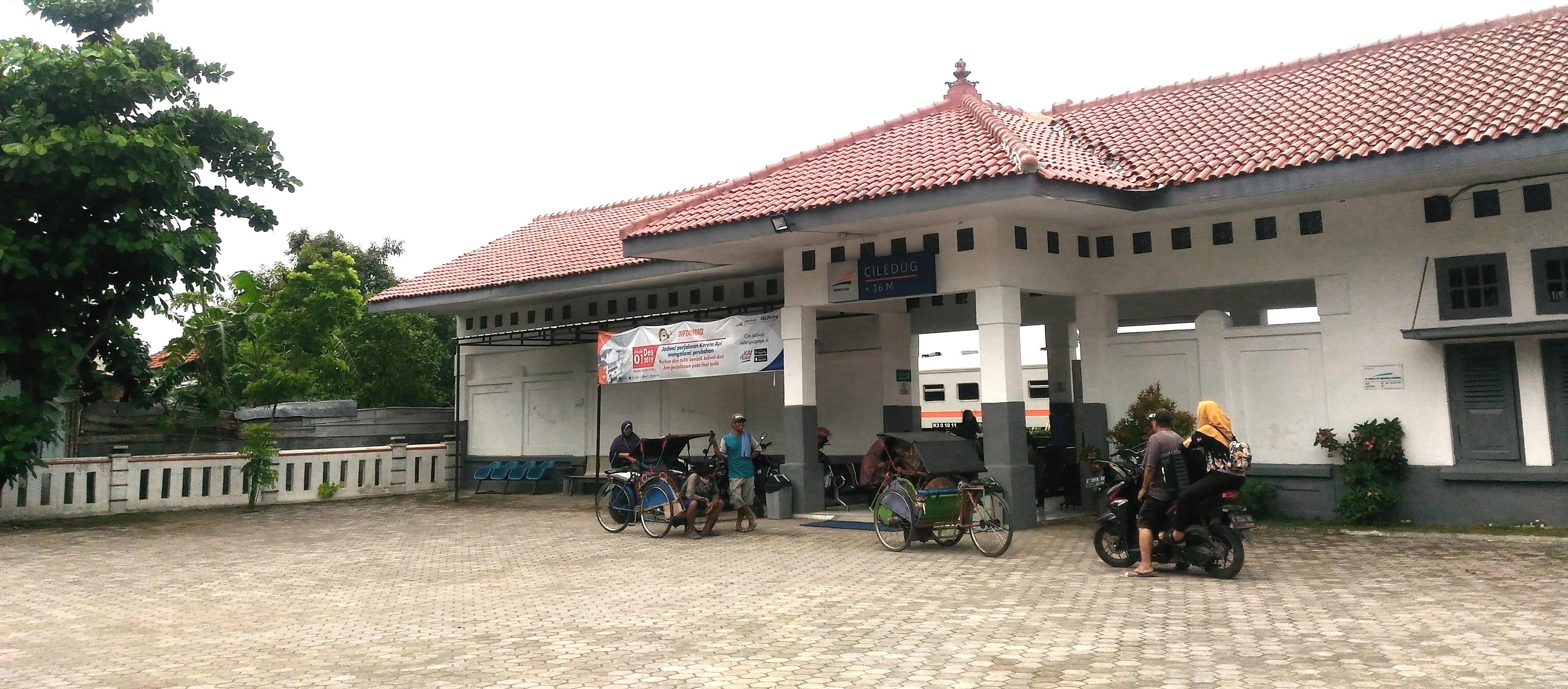 A front view of Ciledug Train Station, Ciledug, Cirebon.